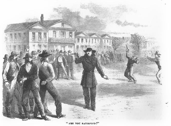 An illustration to the article Wild Bill by George Ward Nichols (Harper’s New Monthly Magazine, February, 1867).